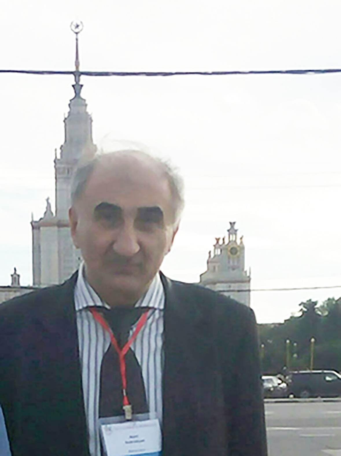 Nairi Sedrakyan jury and problem selection committee member at the 1st Olympiad of Metropolises, financed by the Mayor of Moscow, Sobyanin Sergey Semyonovich, Moscow, Russia.